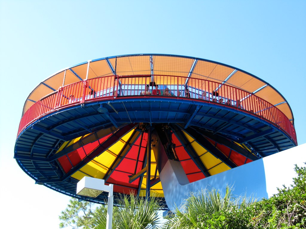 Island in the Sky at Legoland Florida